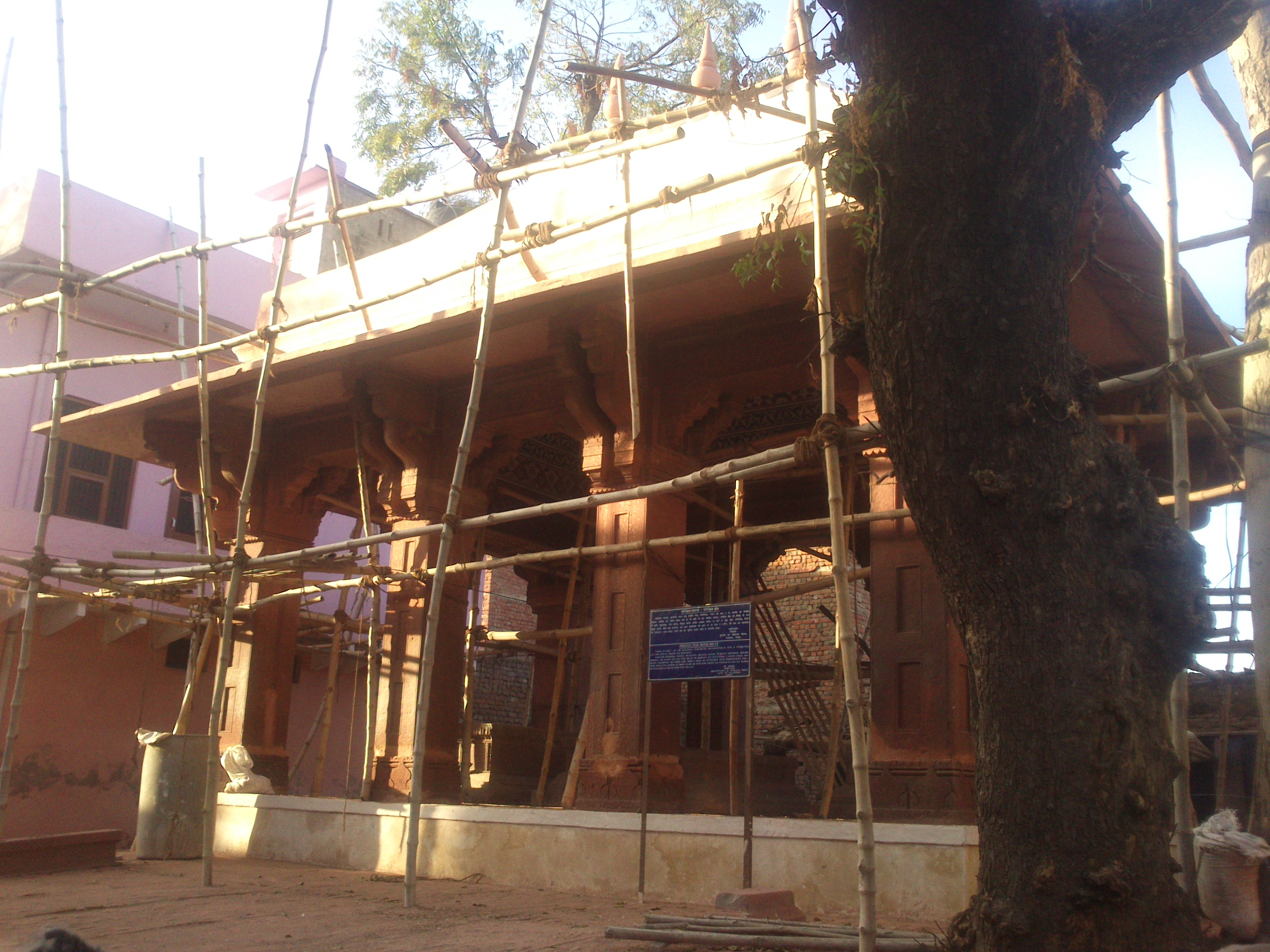 It is the umbrella of Mohammad Gori's Knight